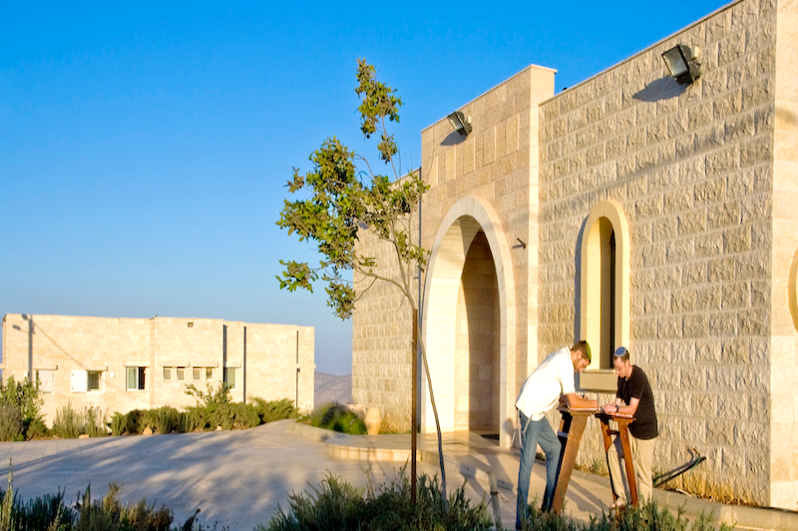 Beit Midrash building